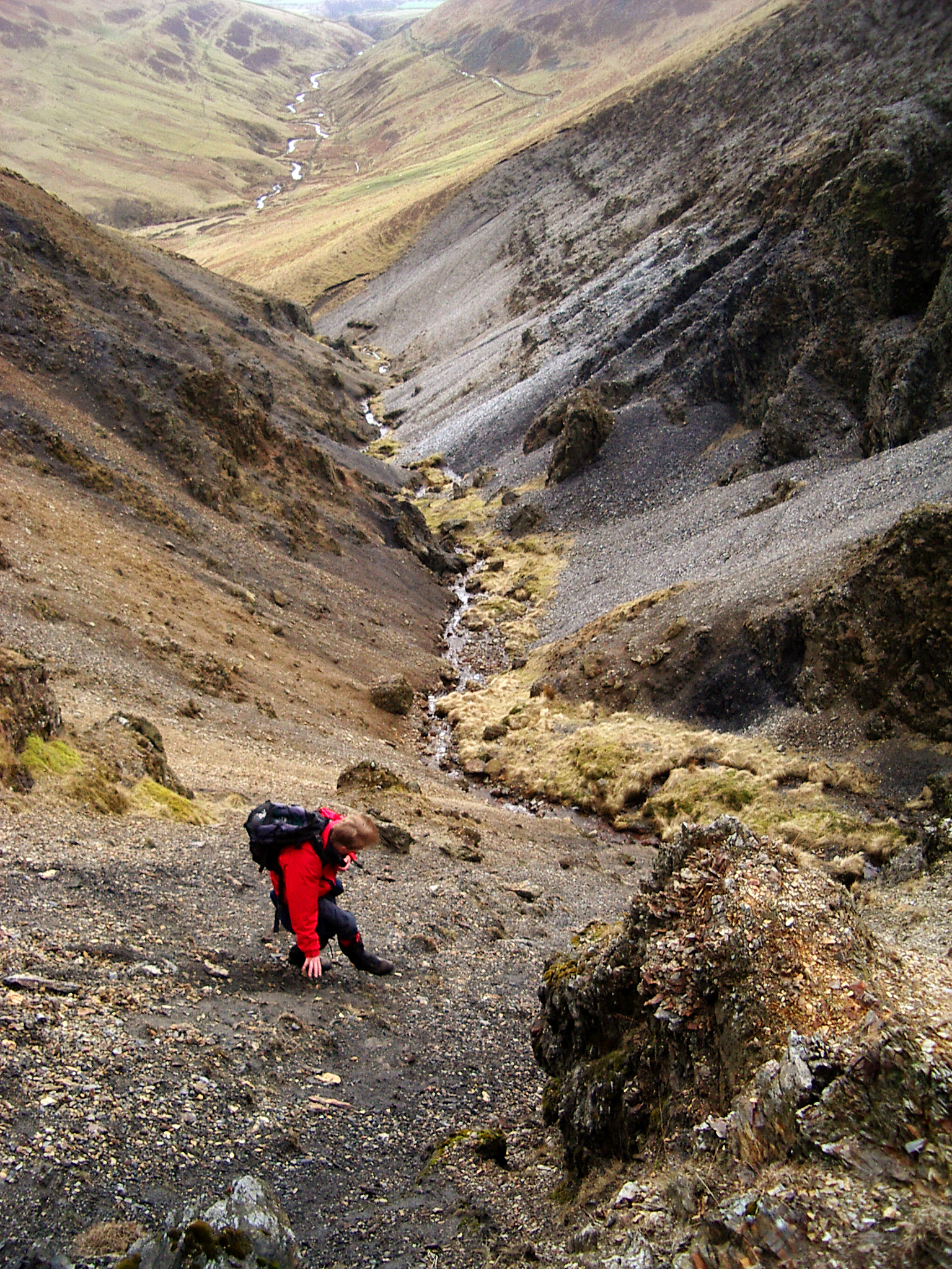 Descending scree run above Hartfell Spa